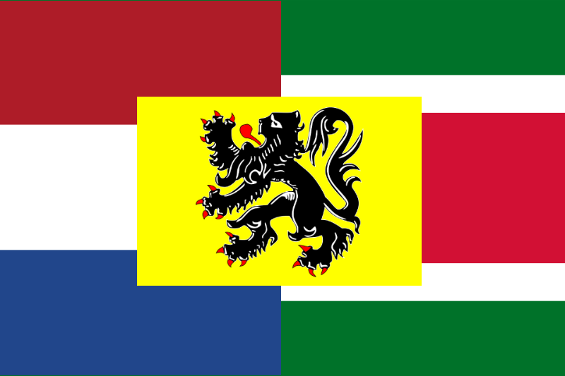 Composite flag for Dutch language